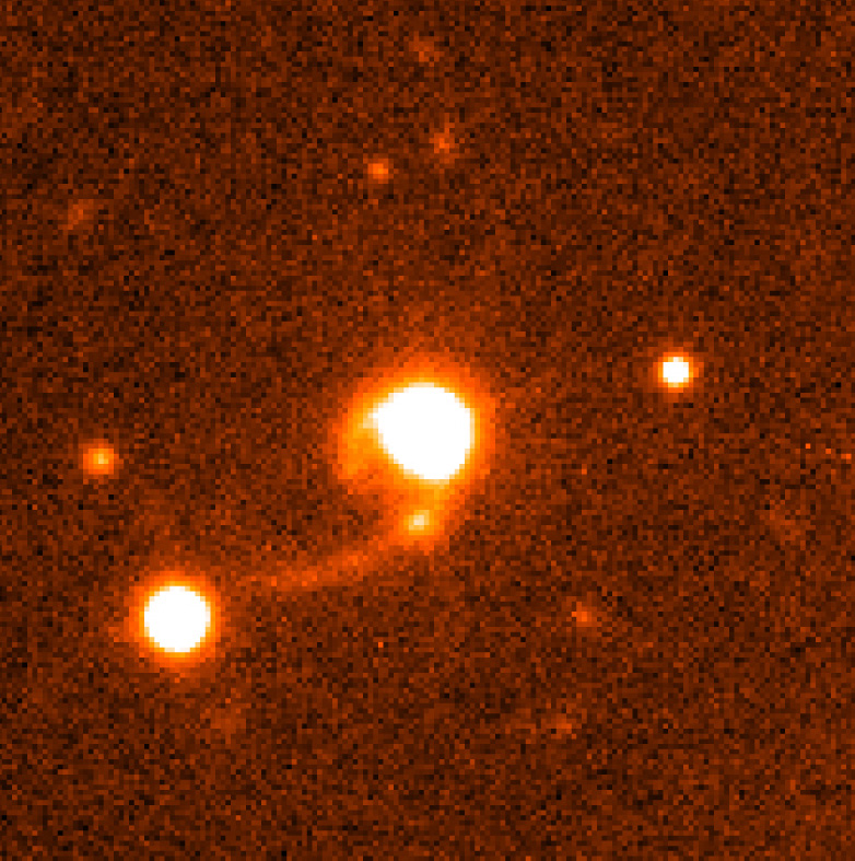 This photograph shows an image of the Quasar HE 1013-2136 (center) and its surroundings, as obtained with the FORS2 multi-mode instrument at the 8.2-m VLT KUEYEN telescope in February 2001. A spectacular arc-like tidal tail stretches from the quasar towards south-east (lower-left) over a distance of more than 150,000 light-years. Another, shorter tidal tail towards the east-northeast is barely visible. Technical information: this image is based on an image that was obtained in the morning of February 26, 2001 with the FORS2 instrument on VLT KUEYEN. It is composed of eight exposures in the I-band filter (effective wavelength 768 nm; FWHM 138 nm), lasting a total of 32 min. The combined image has a FWHM of 0.6 arcsec. The field shown measures 33 x 33 arcsec 2, or 540,000 x 540,000 light-years 2 projected at the distance of the quasar; 1 pixel = 0.2 arcsec. North is up and East is left.